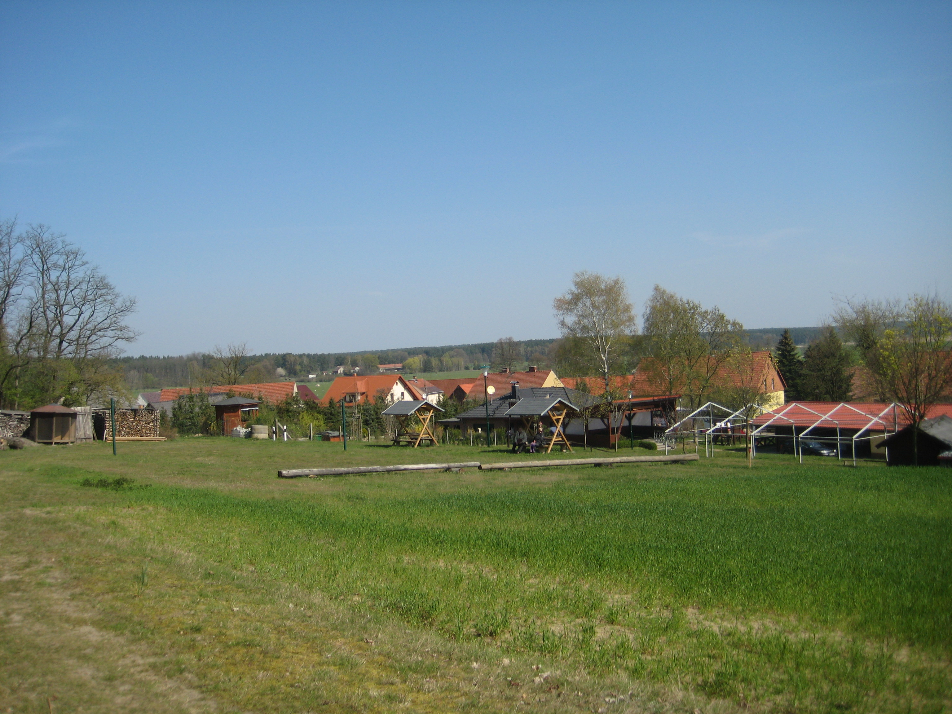 Village Taubendorf, part of Schenkendöbern, Lausitz, Brandenburg, Deutschland.